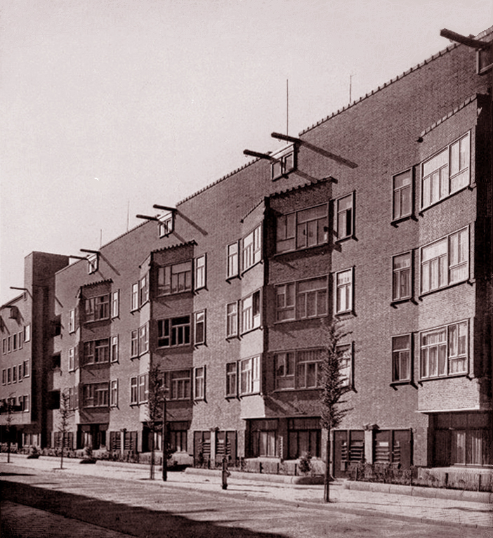 Plan West Amsterdam 1922-1927. Orteliusstraat, architecture by Margaret Staal-Kropholler (1891-1966). Wendingen